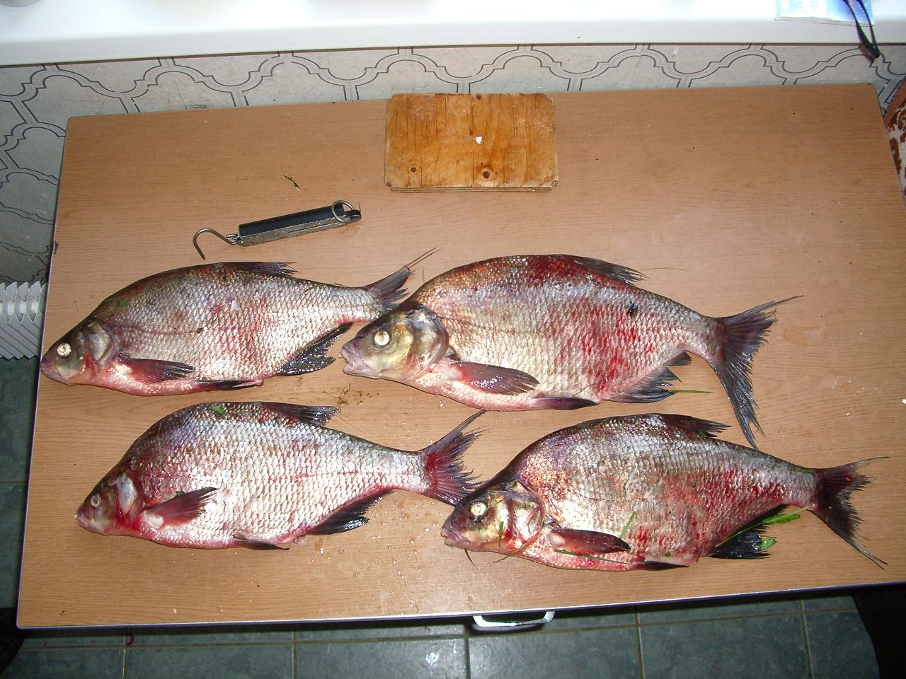 Bream